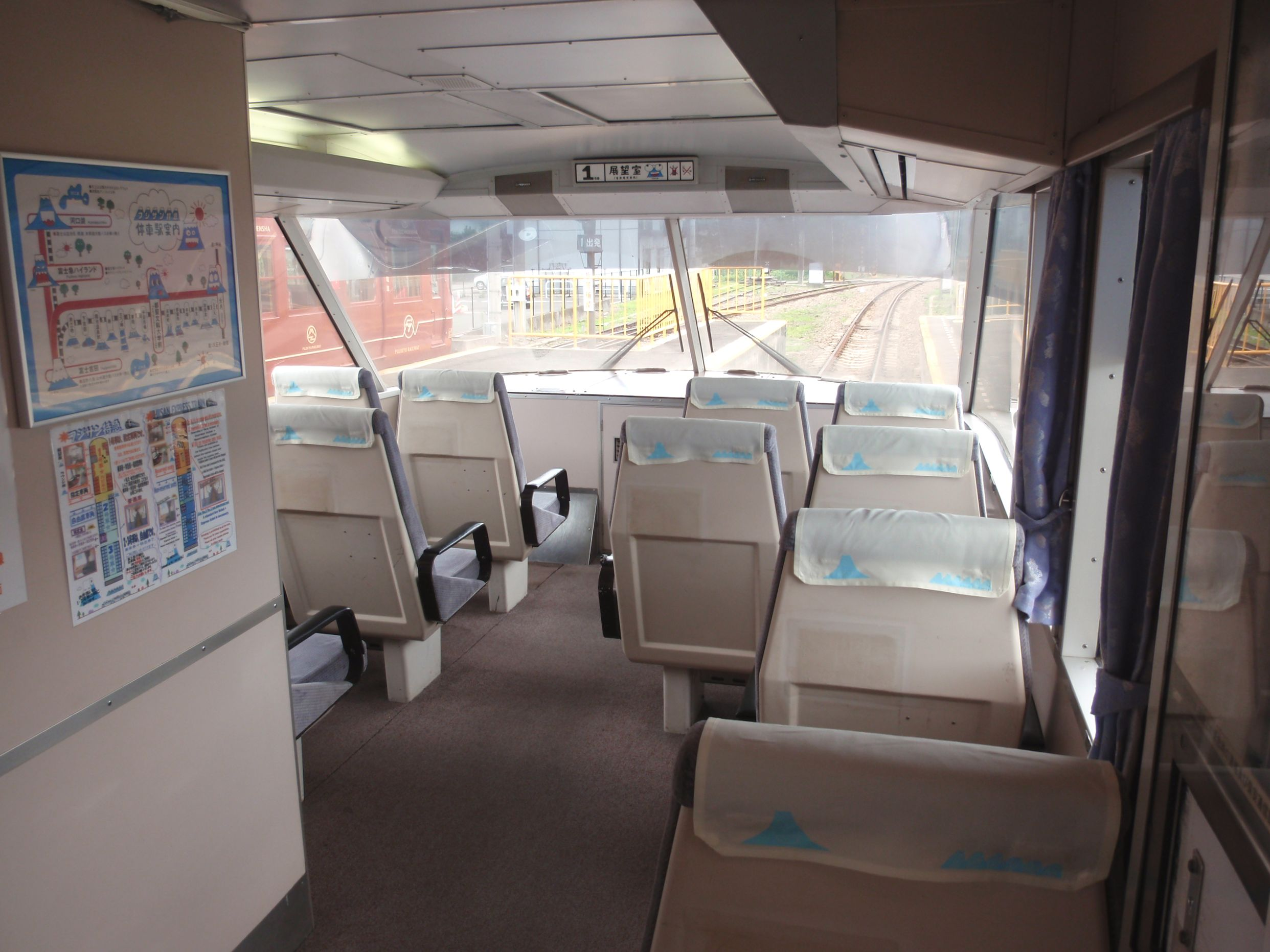 The interior of the observation car (car 1) of a Fujikyu 2000 series EMU at Kawaguchiko Station